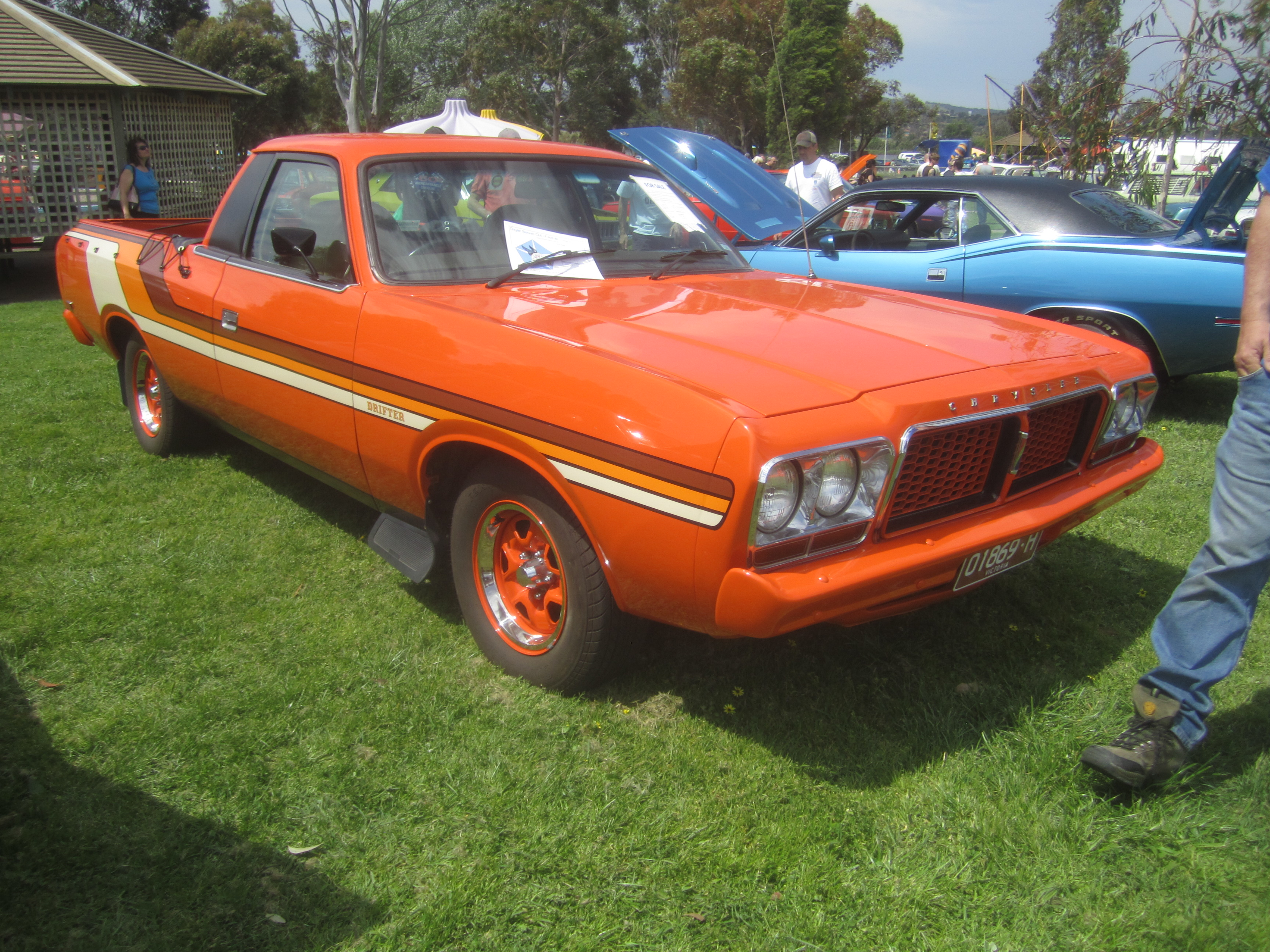 Impact Orange. Panel vans became quite popular with Street Machiners in Australia in the 70s, surfers also loved them. The local car manufacturers, Holden, Ford and Chrysler decided to cash in on this fad. They dressed them up with bright colours, stripes and decals. Interiors, engines and wheels were borrowed from their muscle car siblings. Chrysler called there's the Drifter, not only did they build panel vans, but a 110 utilitys were built as well (and even fewer Charger Drifters) Built in 1978, the Utilitys were made in 4 different colours; Only 18 in this colour, Impact Orange, 45 in Lemon Twist, 47 in Alpine White and 4 in Spinnaker White